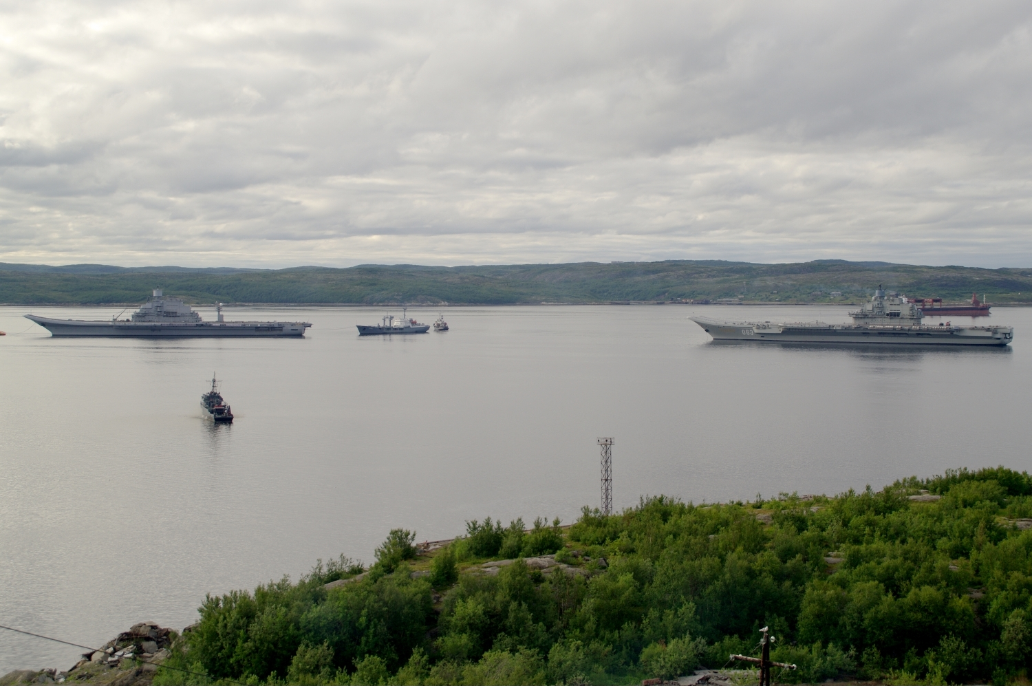 Two aircraft carriers in the closed city of Severomorsk. The INS Vikramaditya of the Indian Navy is on the left. The Admiral Kuznetsov of the Russian Navy is on the right.